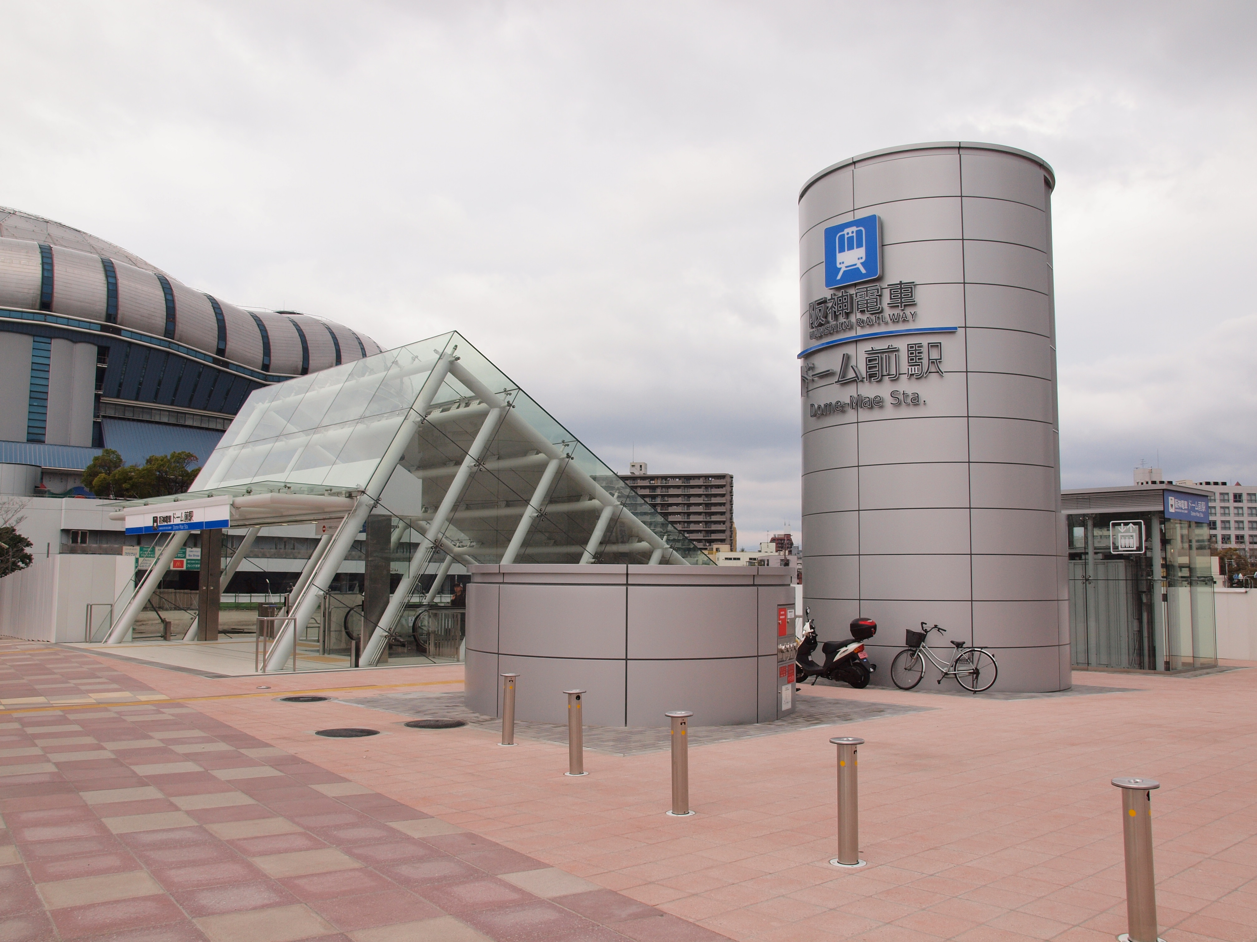 Dome-mae station, Hansin Railway